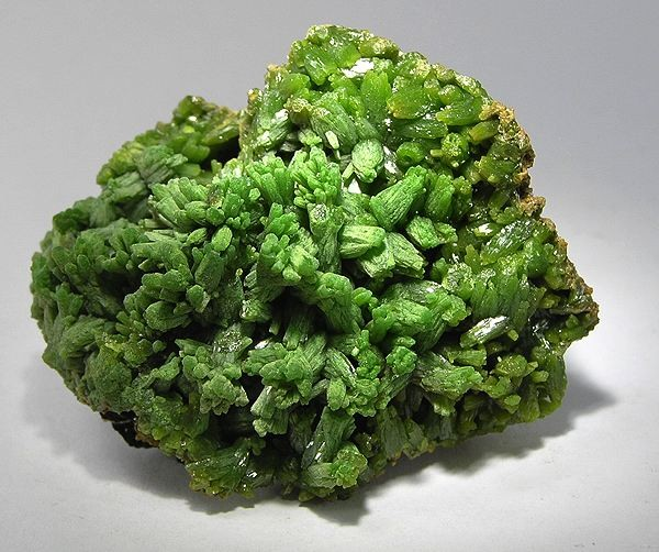 Pyromorphite Locality: Daoping Mine (Tangping Mine), Gongcheng City, Gongcheng County, Guilin Prefecture, Guangxi Zhuang Autonomous Region, China (Locality at ) Size: 6.8 x 5.3 x 3.3 cm. From the now well-known finds in China that took their place alongside Bunker Hill and Les Farges as "major" for the species - a sizeable and rich specimen from the Marty Zinn collection. This specimen has an interesting bi-colored effect, due to a coating on the crystals on the upper part of the specimen, which contrasts with the more typical color and luster of the crystals around the bottom. This material has of course become a lot more scarce since the end of mining around 2 years back.